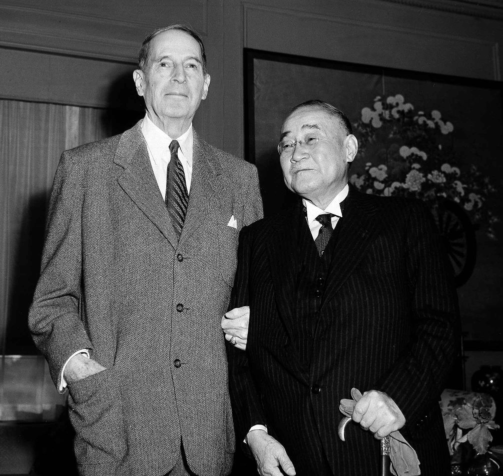 Japanese Prime Minister Shigeru Yoshida (1878–1967, in office 1946–57 and 48–54) visits his ”old friend“ General (ret.) Douglas MacArthur at his residence at the Waldorf-Astoria in New York during his last visit to the US.